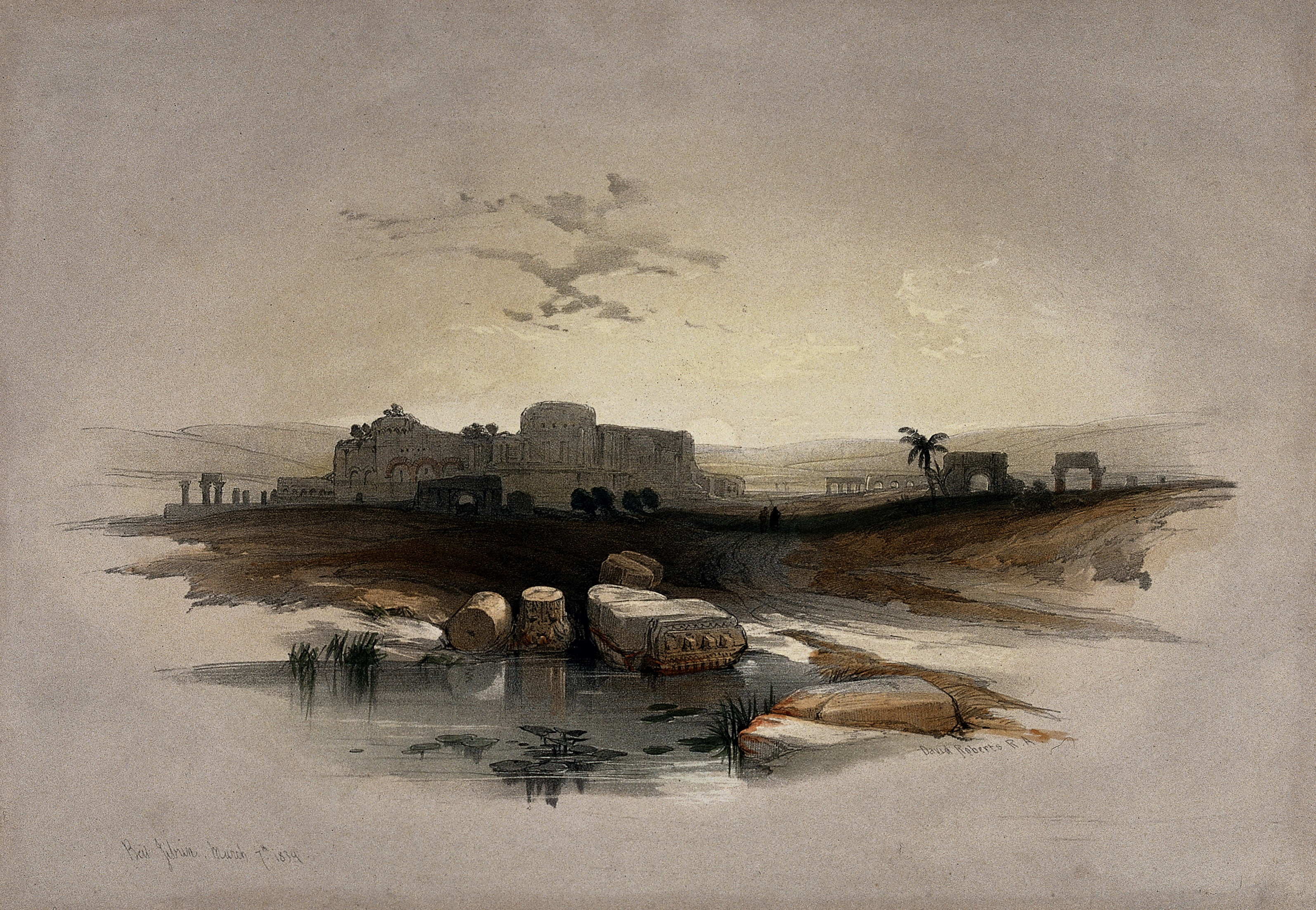 Ruined city of Beit Jibrin, or Eleutheropolis. Coloured lithograph by Louis Haghe after David Roberts, 1843. Iconographic Collections Keywords: David Roberts; Louis Haghe